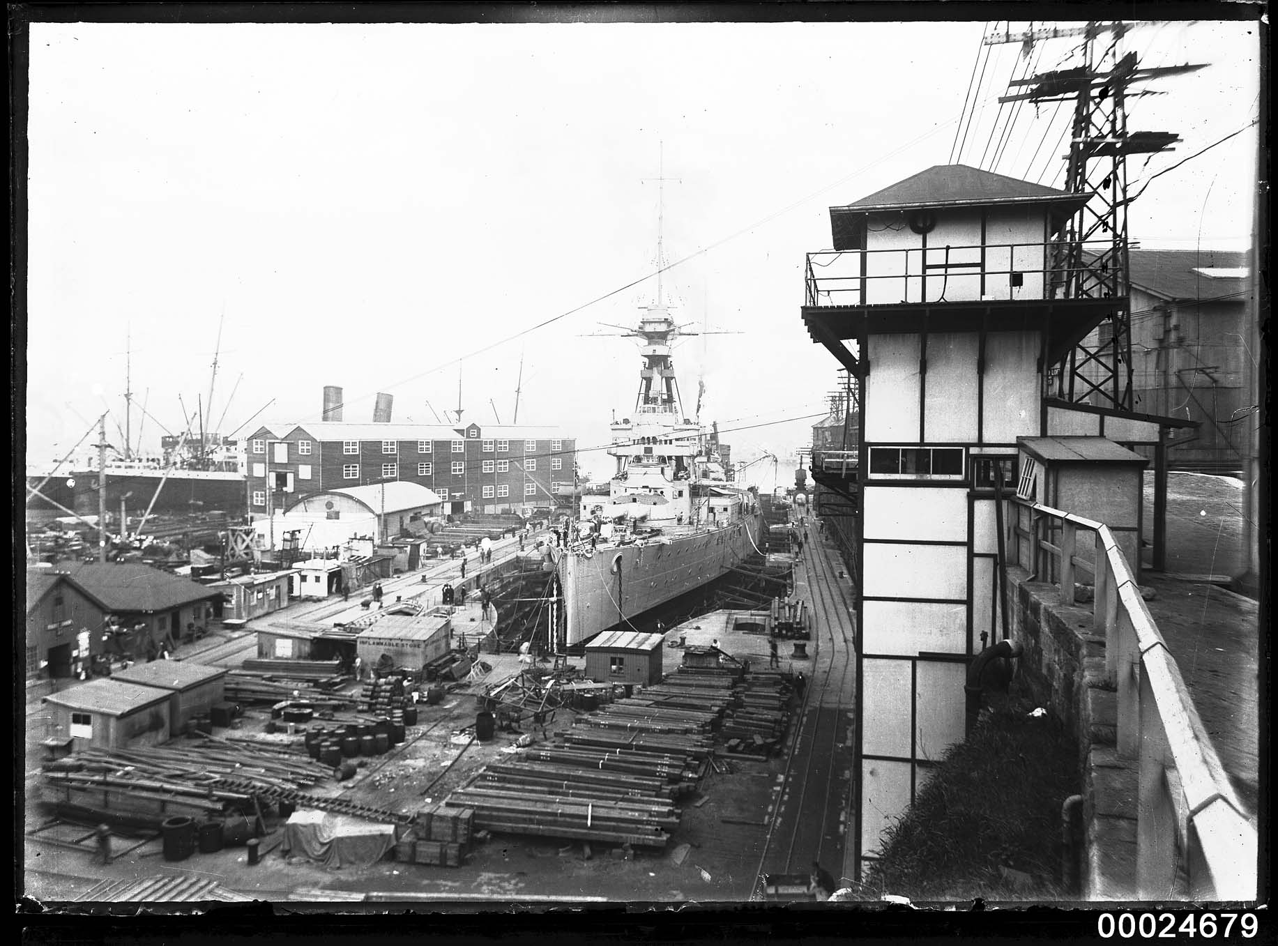 Jellicoe arrived in Australia in June 1919 at the invitation of the Commonwealth to conduct a review of Australia’s strategic situation and to make recommendations for the RAN. He subsequently travelled to New Zealand where he became Governor General of New Zealand in 1920. This photo is part of the Australian National Maritime Museum’s Samuel J. Hood Studio collection. Sam Hood (1872-1953) was a Sydney photographer with a passion for ships. His 60-year career spanned the romantic age of sail and two world wars. The photos in the collection were taken mainly in Sydney and Newcastle during the first half of the 20th century. The ANMM undertakes research and accepts public comments that enhance the information we hold about images in our collection. This record has been updated accordingly. Photographer: Samuel J. Hood Studio Collection Object no. 00024679